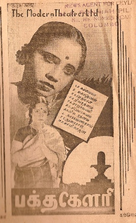 Poster for the 1941 South Indian Tamil film Bhaktha Gowri